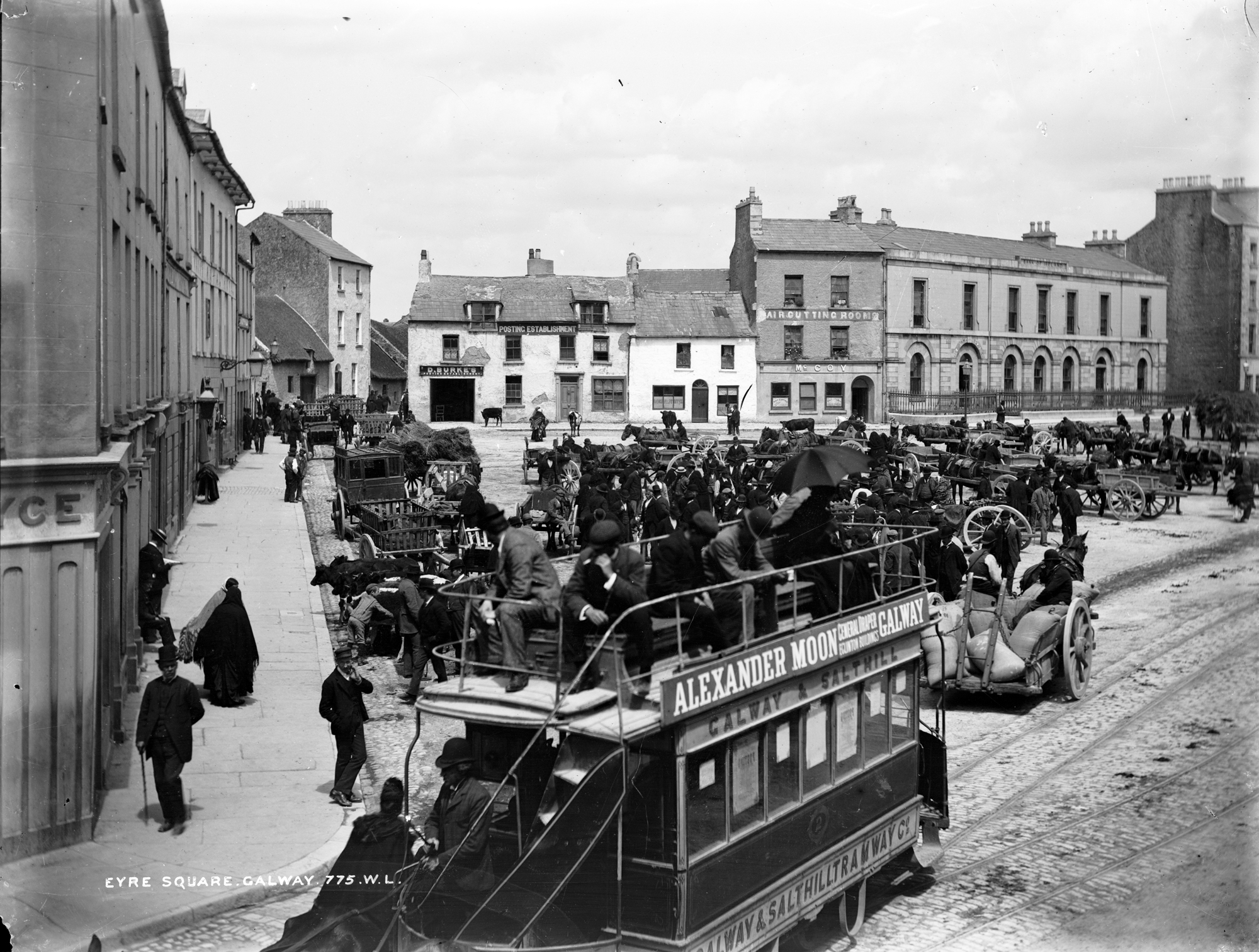 Featuring the shyest tram passengers ever... Date: 1880s? NLI Ref.: L_ROY_00775